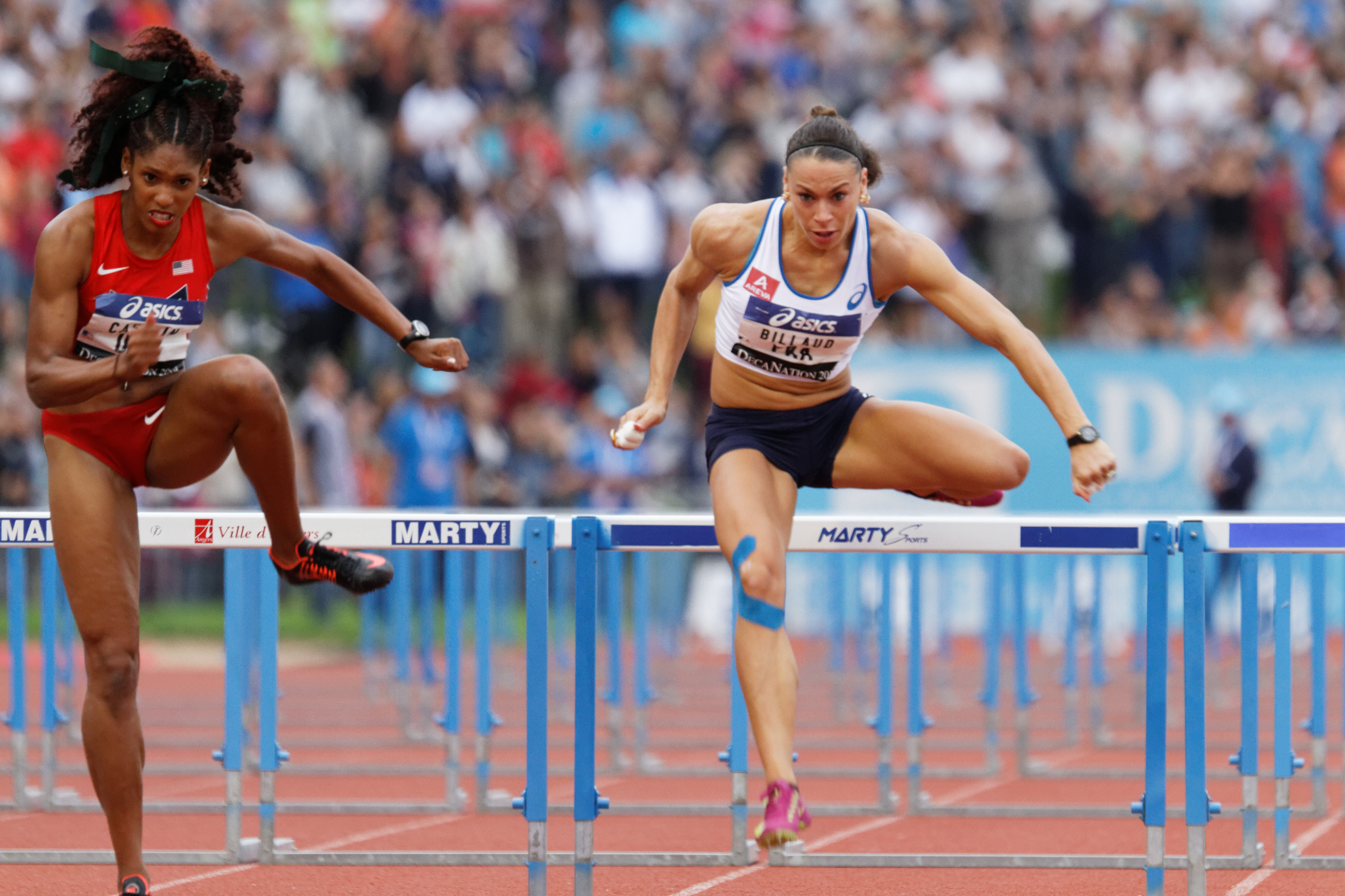 DécaNation 2014. 100m hurdles.